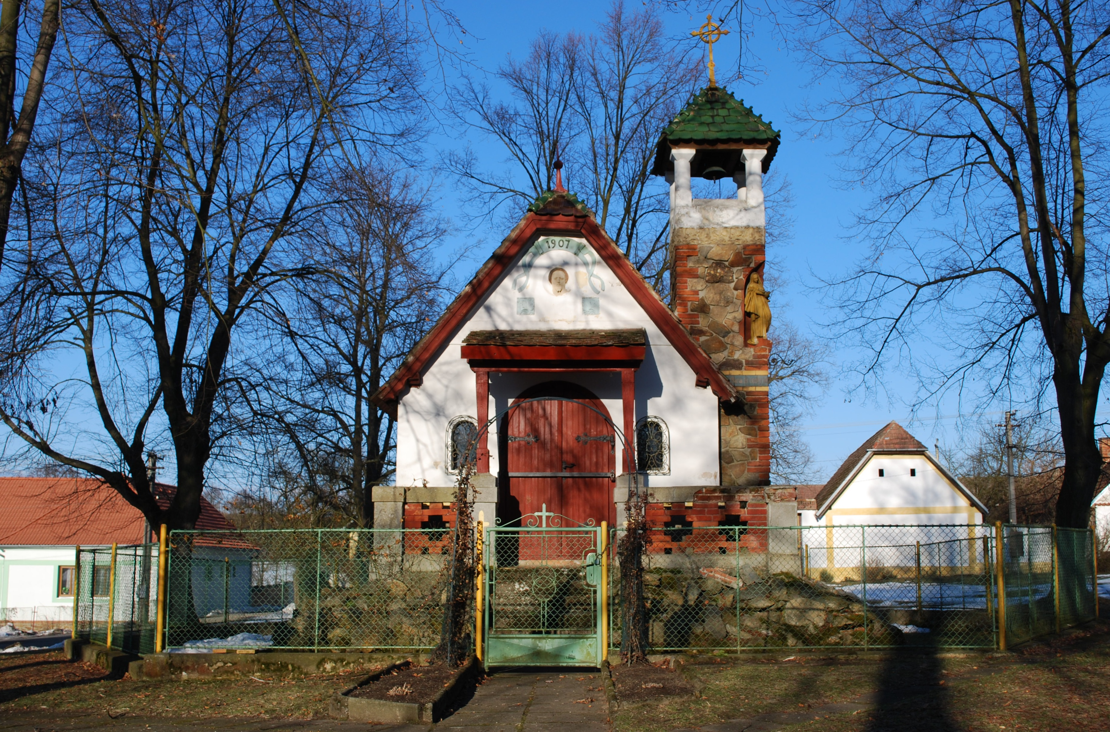 Bežerovice village, part of Sudoměřice u Bechyně municipality in Tábor District, Czech Republic. Chapel. This photograph was taken within the scope of the 'Czech Municipalities Photographs' grant.